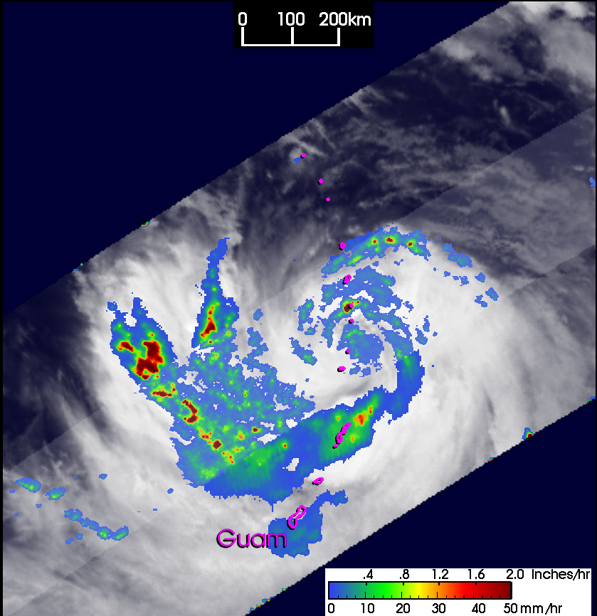 Tingting, at the time still a tropical storm, dumped record breaking rains on Guam over the weekend resulting in extensive flooding and mudslides. The weather service reported that 16 inches of rain fell on Sunday alone (local time). The tropical depression that would later become Tingting first formed on the 25th of June 2004 several hundred miles east-southeast of the southern Mariana Islands. The storm proceeded westward for a short time before turning northwest. The system slowly strengthened becoming a tropical storm on the 26th and a minimal typhoon on the 28th as it passed north of Saipan in the central Marianas. After passing through the island chain, the storm turned northward and is expected to pass close to Iwo Jima.